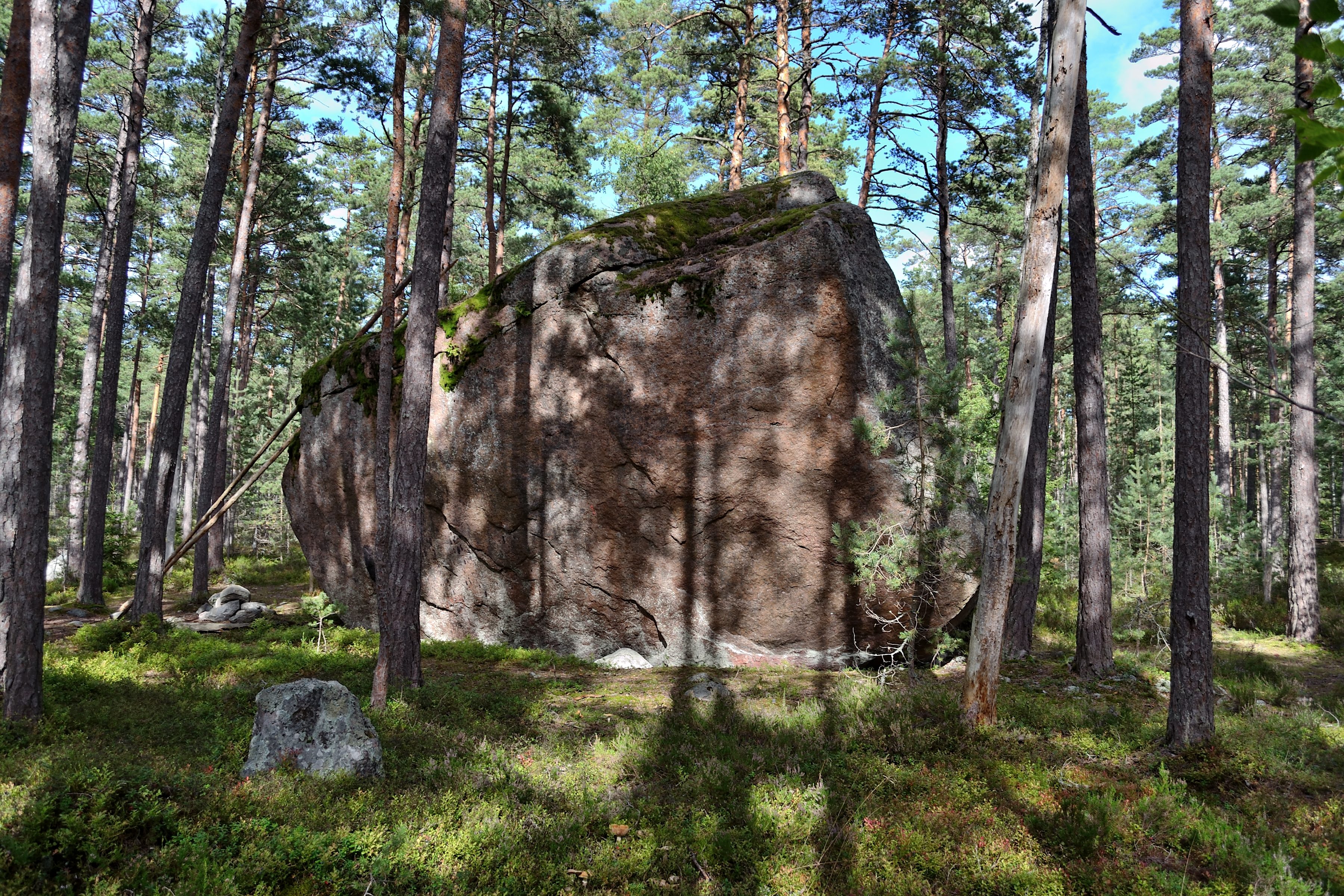 Largest glacial erratic rock on island Naissaar. Height 6,5-7,0 m.